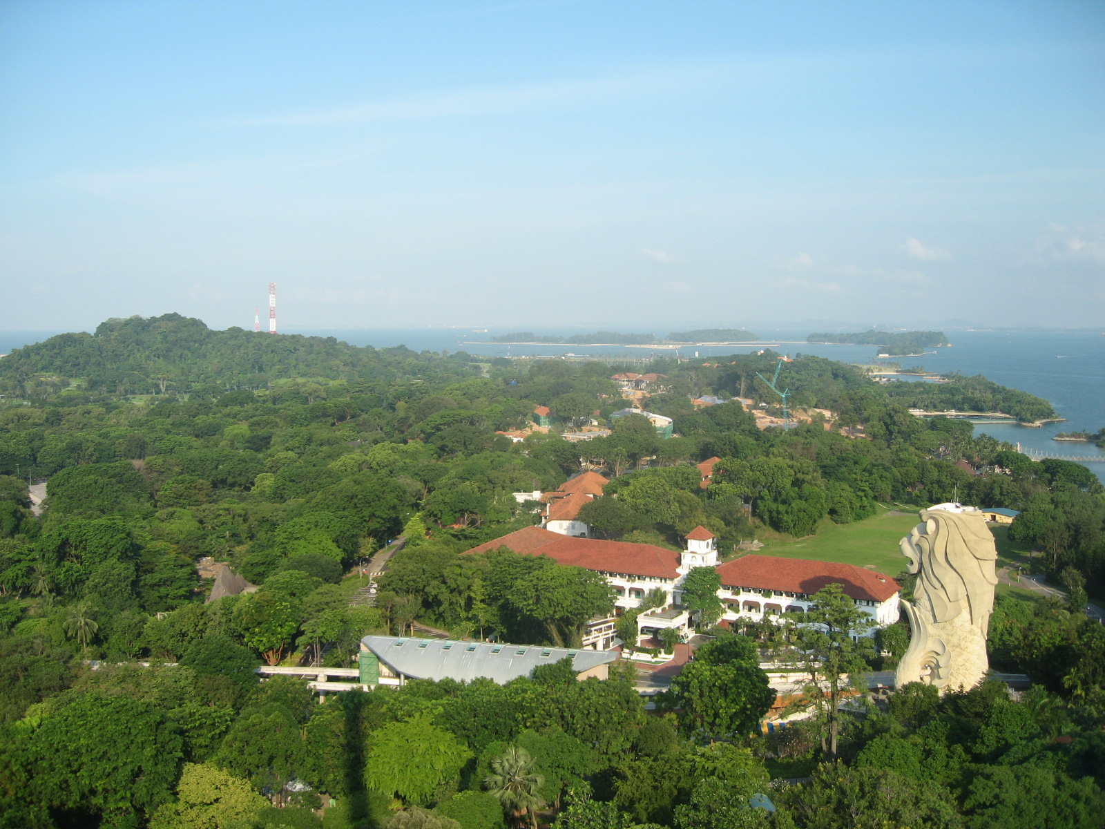 An aerial view of Sentosa, Singapore, as seen from the Carlsberg Sky Tower (now known as the Tiger Sky Tower).